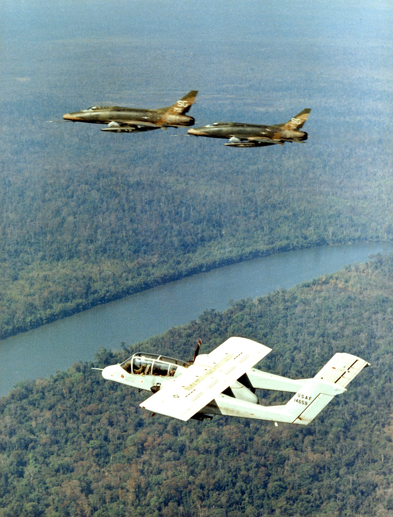 A U.S. Air Force North American OV-10A-30-NH Bronco (s/n 67-14659) in flight with two North American F-100C Super Sabre of the 136th Tactical Fighter Squadron. The 136th TFS was a New York Air National Guard unit that was assigned to the 31st Tactical Fighter Wing at Tuy Hoa Air Base, Vietnam from 14 June 1968 to 25 May 1969.The OV-10A 67-14659 was later shot down near Trapeang Veng, Cambodia, on 7 April 1973 while in service with the 23rd Tactical Air Support Squadron, 56th Special Operation Wing.